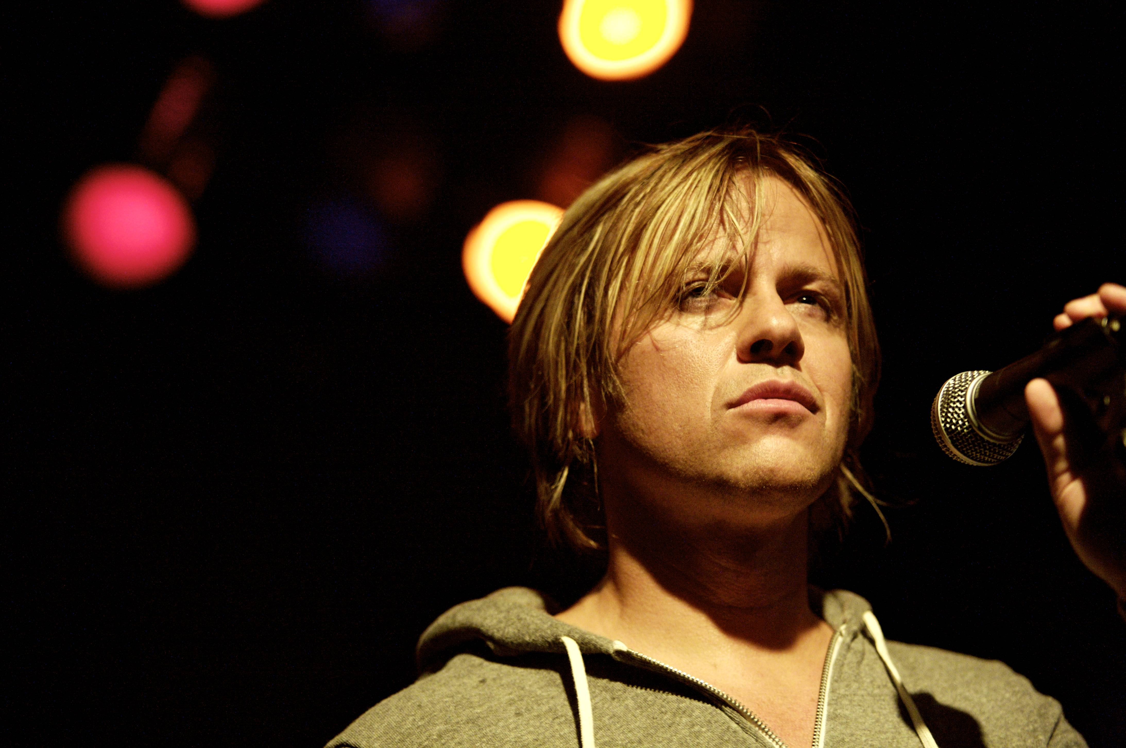 Brett Manning performing at the Exit/In in Nashville, TN on October 6, 2008.